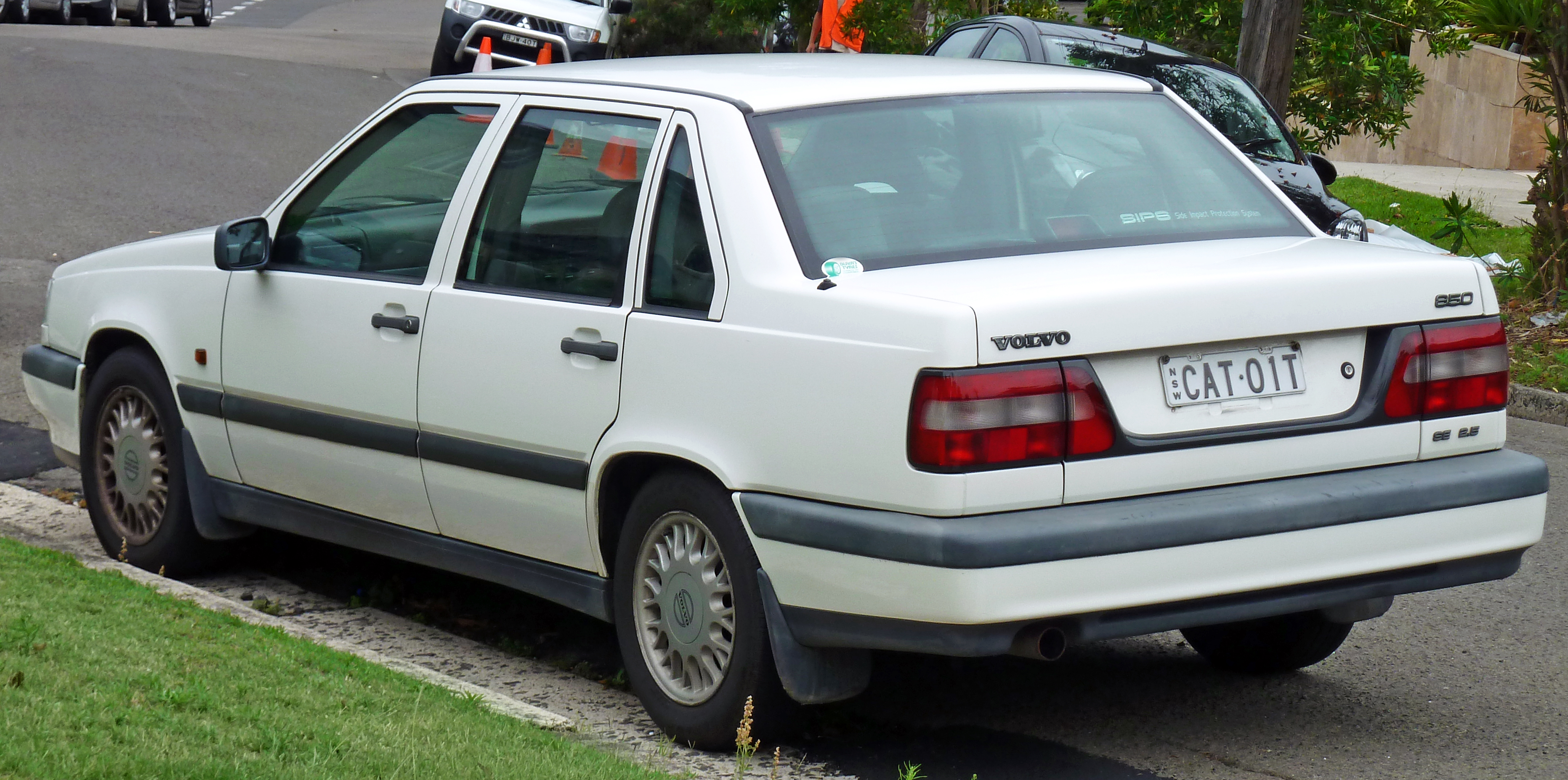 1995 Volvo 850 SE 2.5 sedan. Photographed in Bellevue Hill, New South Wales, Australia.